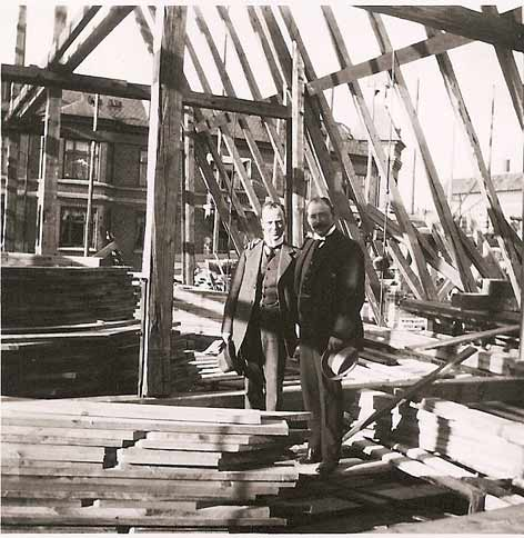 Godthaabskirken under construction. Gotfred Tvede (1863-1947) and his assistant, Einar Madvig (1882-1952).